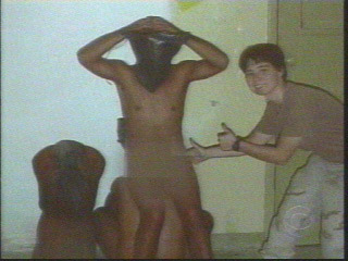 Abu Ghraib 47. 11:27 p.m., Nov. 7, 2003. The detainees were brought into the hard site for their involvement in a riot. The seven detainees were flexi cuffed and thrown into a pile on the floor. Soldiers then jumped on the pile, stomped on their hands and feet. ENGLAND stated she posed for this photo. SOLDIER: PFC ENGLAND. All caption information is taken directly from CID materials. U.S. Army / Criminal Investigation Command (CID). Seized by the U.S. Government. Note: Lynndie England humiliating a naked inmate at Abu Ghraib prison. The hooded man is Hayder Sabbar Abd, a 34-year-old Shiite from southern Iraq who was never charged and never interrogated in months of detention. England stated she posed for this photo.